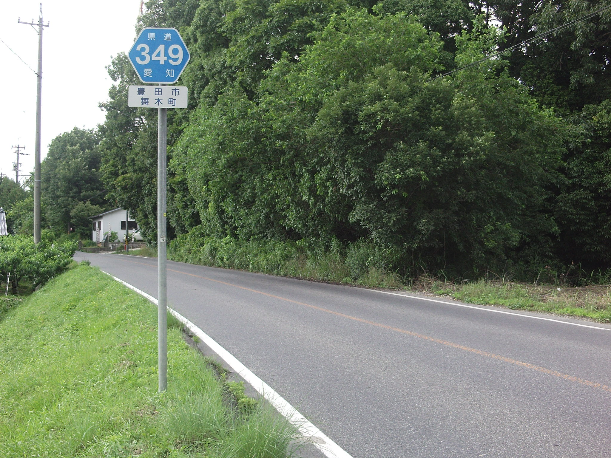 Aichi prefectural road No.349 in Maigicho, Toyota, Aichi.